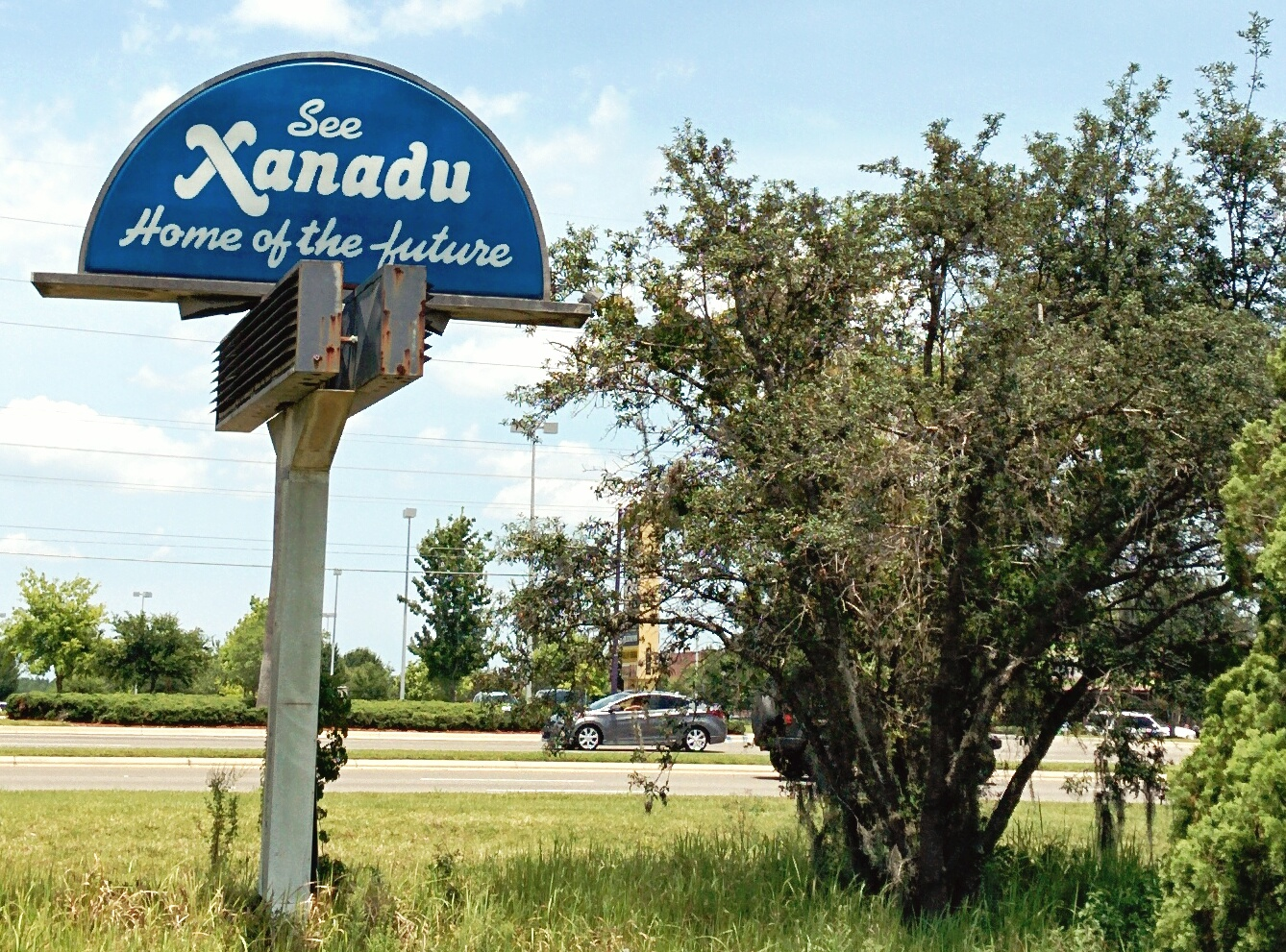 A photo of an abandoned "See Xanadu Home of the future" sign in Kissimmee, Florida in 2014.